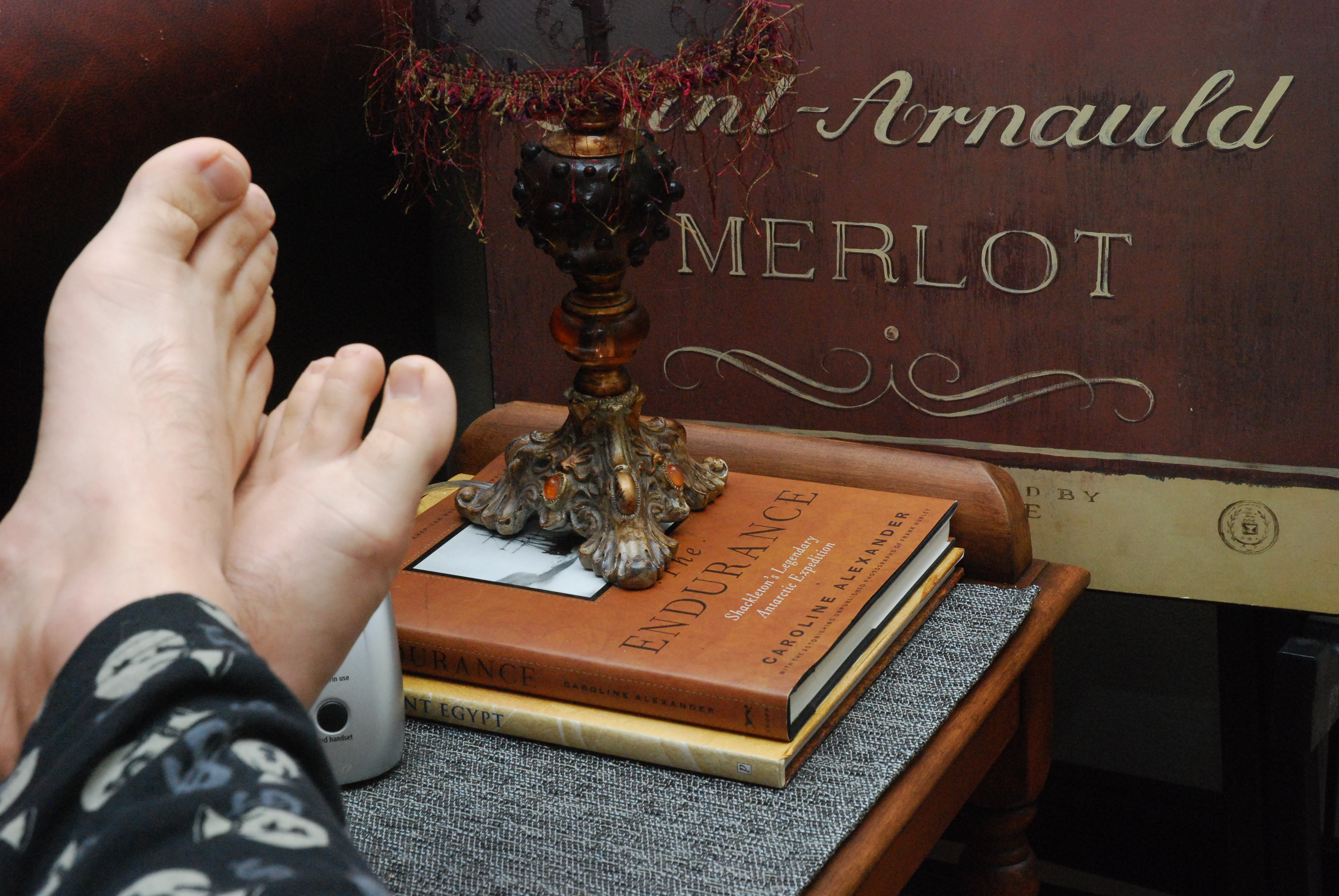 Barefoot on the table